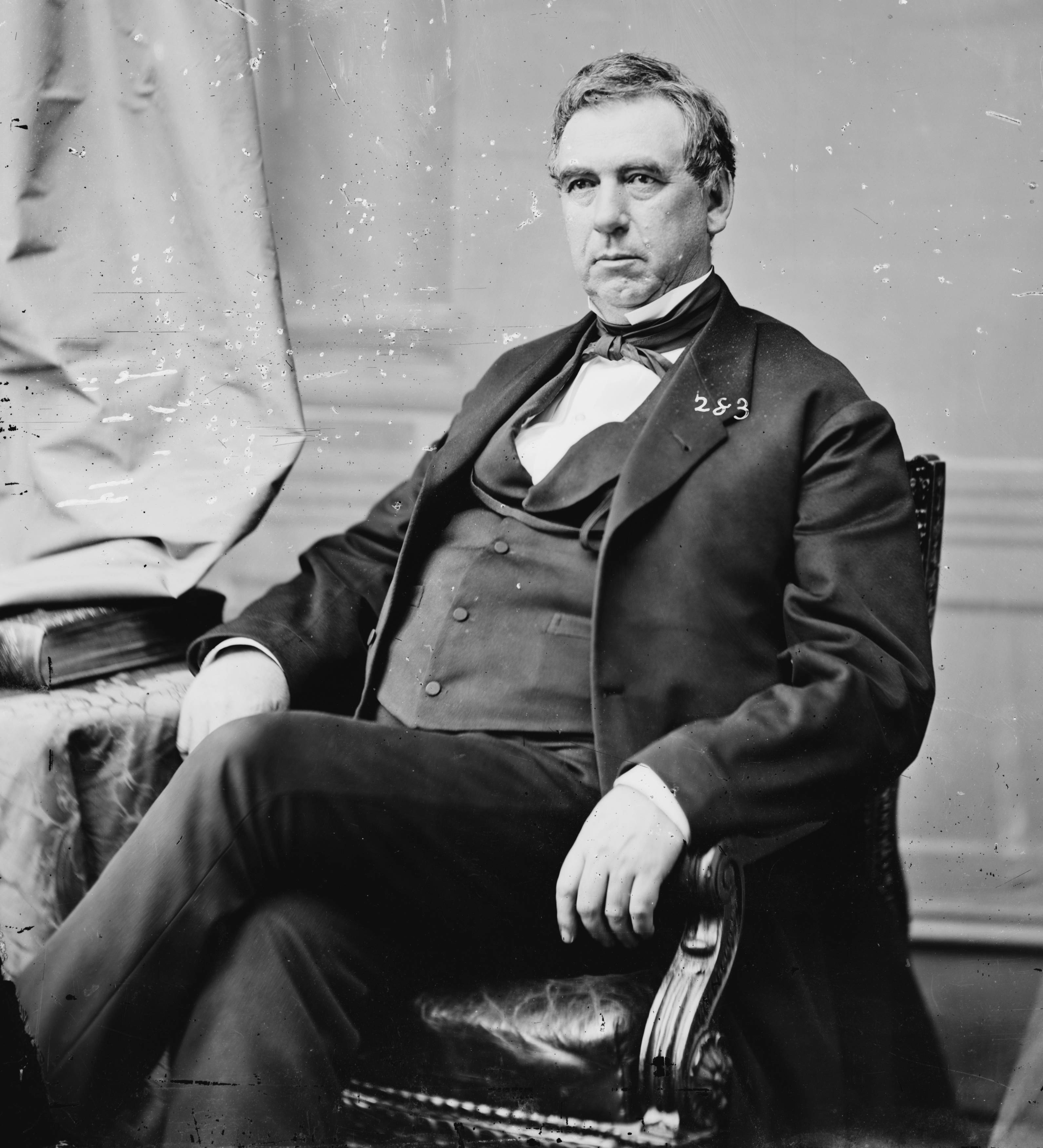 Daniel D. Pratt, former member of the United States Senate.